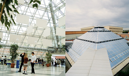 Pyramid at Koç School